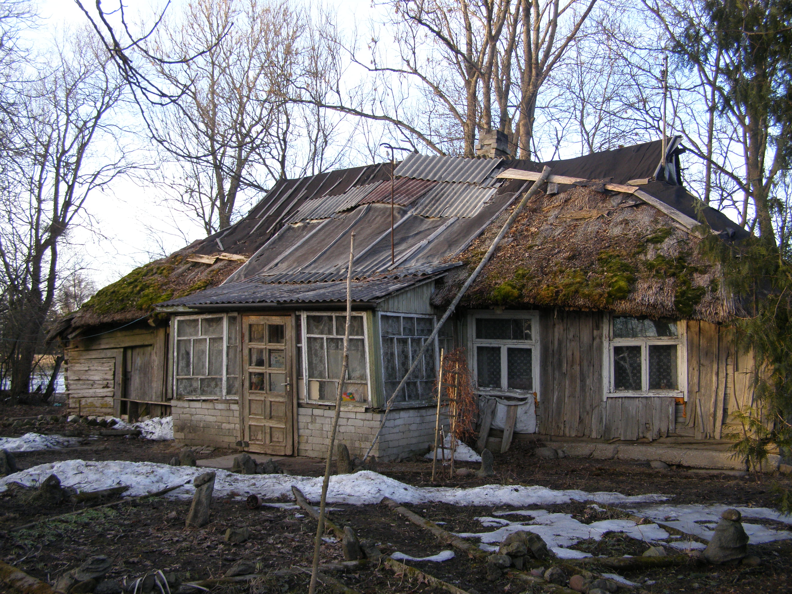 Barzdžių Medsėdžiai, Kretinga district, LithuaniaLietuvių: Etnoarchitektūrinė troba, statyta 1643 m., Barzdžių Medsėdžiai, Kretingos rajonas, Lietuva